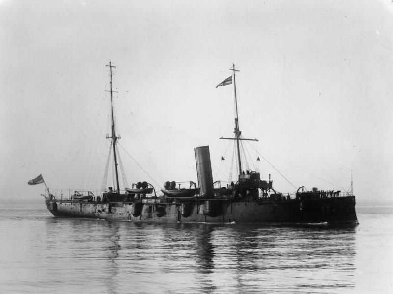 Photograph of British Mersey class protected cruiser HMS Forth.